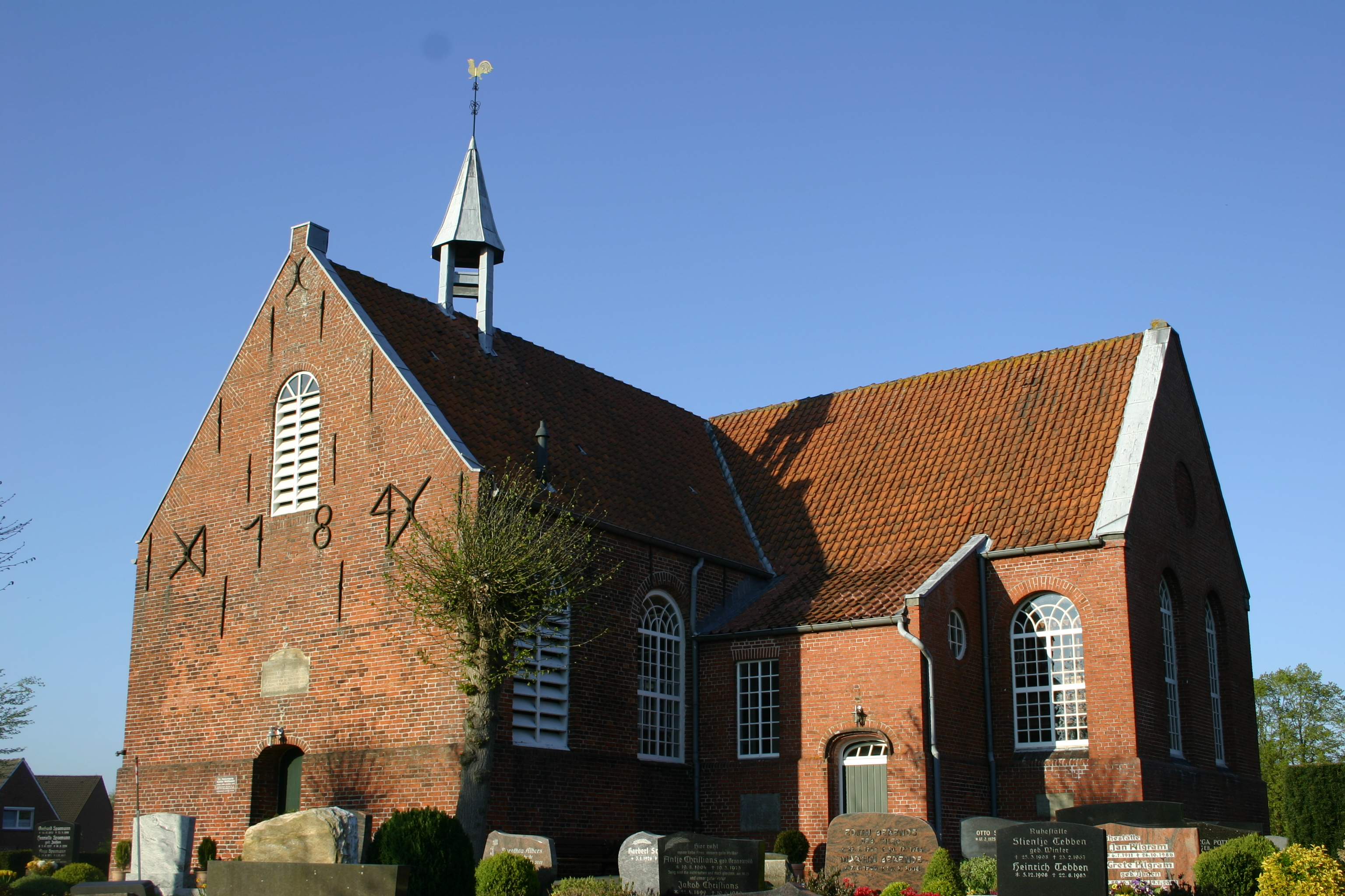 Historic church in Wolthusen, city of Emden, East Frisia, Germany